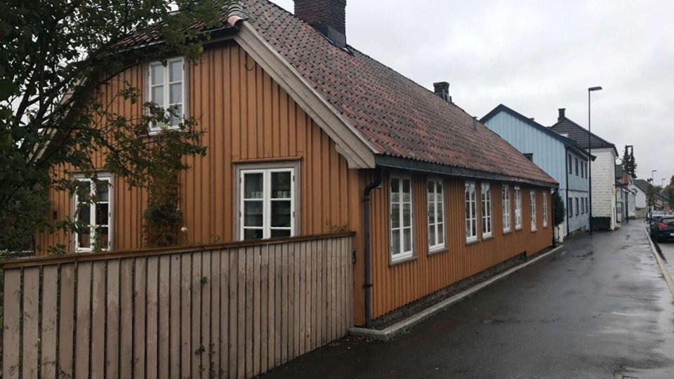 Sør-øst for huset. Bildet viser dens utvendige utsmykning i dag, 2019.